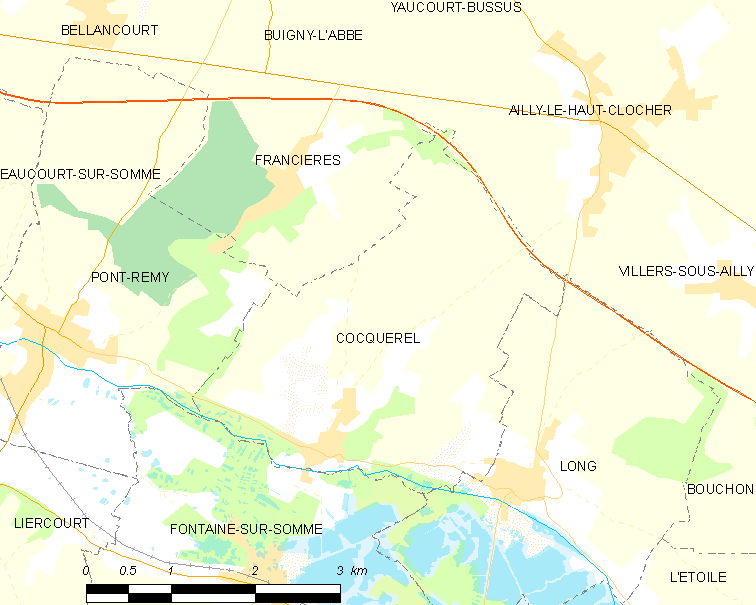 Map of French municipality Cocquerel